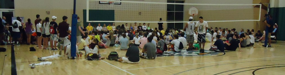 Summit high school seniors, after graduating in June 2012, attend a post-graduation party in a gym in Berkeley Heights, New Jersey. A hypnotist transfixes students while others look on.